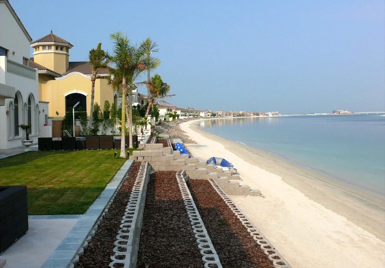 This is a photo of a beach and an inlet between two fronds on the Palm Jumeirah in Dubai, United Arab Emirates on 24 January 2008.